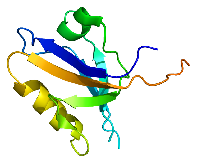 Structure of the PICK1 protein. Based on PyMOL rendering of PDB 2gzv.